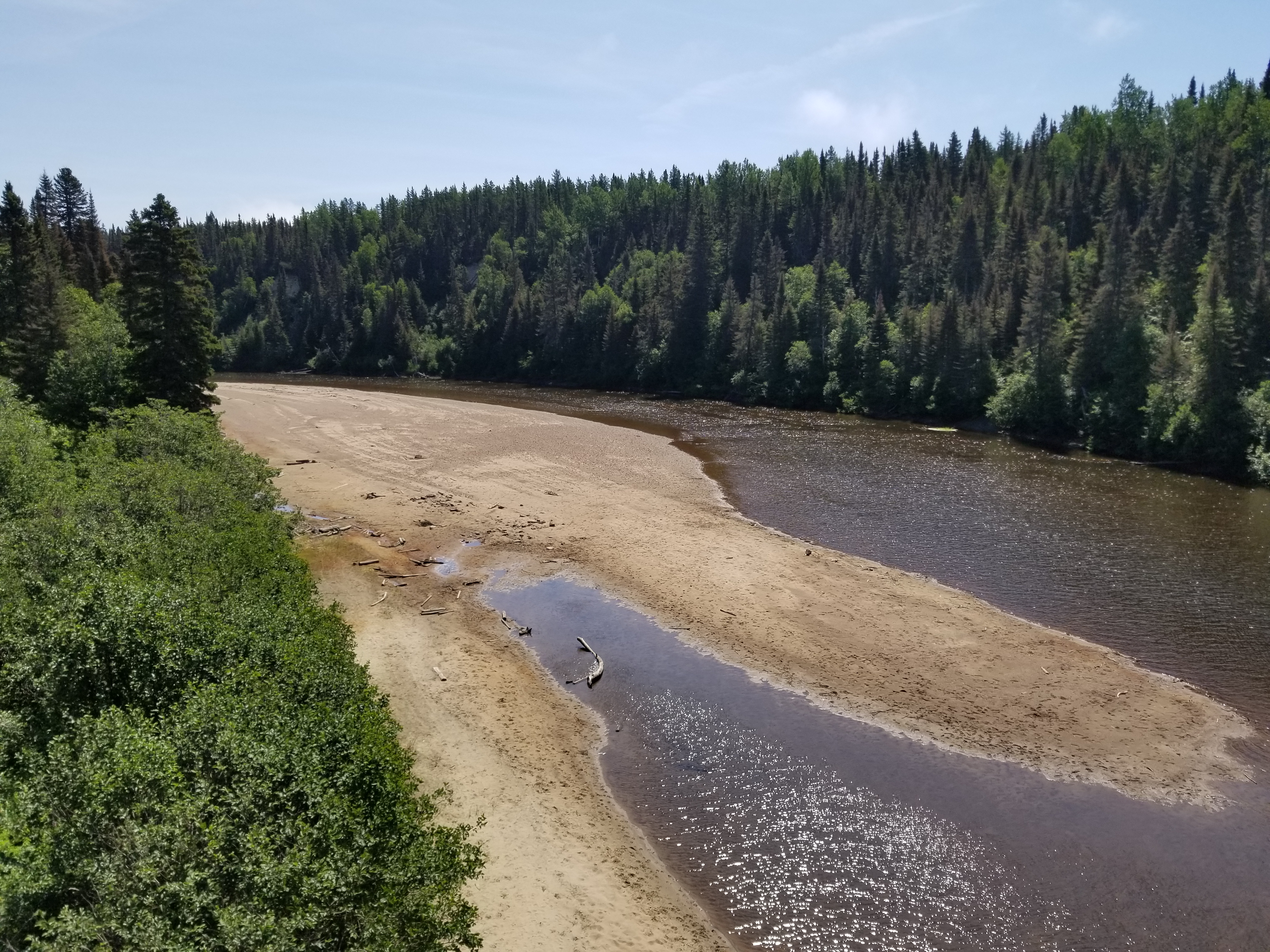 Rivière du Sault au Cochon seen downstream from the Highway 138 bridge in Forestville.